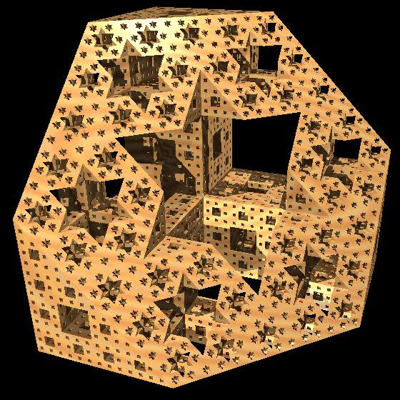 Menger cube